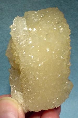 Colemanite, Meyerhofferite, Inyoite Locality: Corkscrew Canyon Mine (Corkscrew Mine), Corkscrew Canyon, Black Mts, Furnace Creek District (Furnace Creek Borate District), Death Valley National Park, Death Valley, Inyo County, California, USA (Locality at ) Size: 7.2 x 5.0 x 4.2 cm. A large, superb, double pseudomorph borate crystal from the famous Death Valley of California. This sharp, lustrous and sugary crystal is colemanite pseudomorphing meyerhofferite, which itself was pseudomorphing an original large inyoite crystal. It hails from the Corkscrew Mine in Corkscrew Canyon. Very highly representative of these rare borate species and locality. Ex. John Ydren Collection.